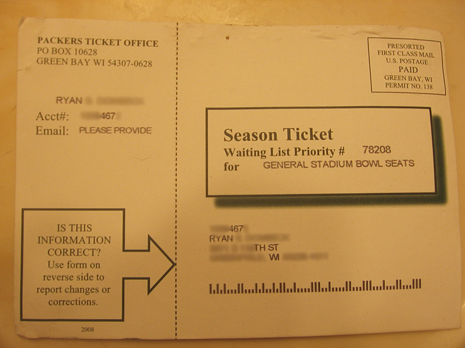 Postcard sent out each year to those who have signed up to be on the Packer season ticket wait list. Gives current position on wait list, name, address, and an account number.